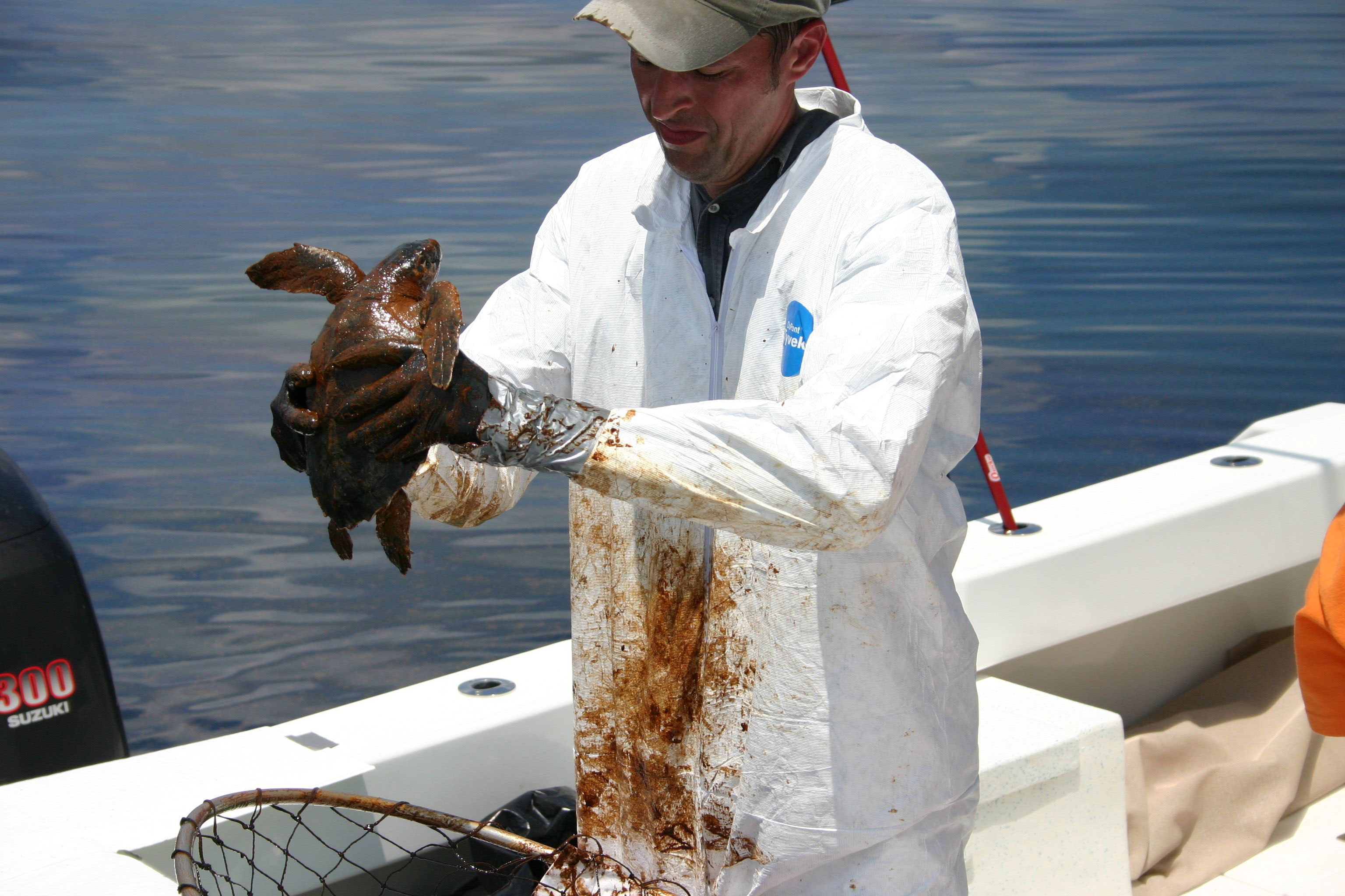 Dr. Brian Stacy, NOAA veterinarian, prepares to clean an oiled Kemp's Ridley turtle. Veterinarians and scientists from NOAA, the Florida Fish and Wildlife Commission, and other partners working under the Unified Command are capturing heavily-oiled young turtles 20 to 40 miles offshore as part of ongoing animal rescue and rehabilitation efforts. Credit: NOAA and Georgia Department of Natural Resources. As the nation’s leading scientific resource for oil spills, NOAA has been on the scene of the BP spill from the start, providing coordinated scientific weather and biological response services to federal, state, and local organizations. To learn more about NOAA's role in the Deepwater Horizon oil spill, visit: Office of Response and Restoration Deepwater Horizon Incident page